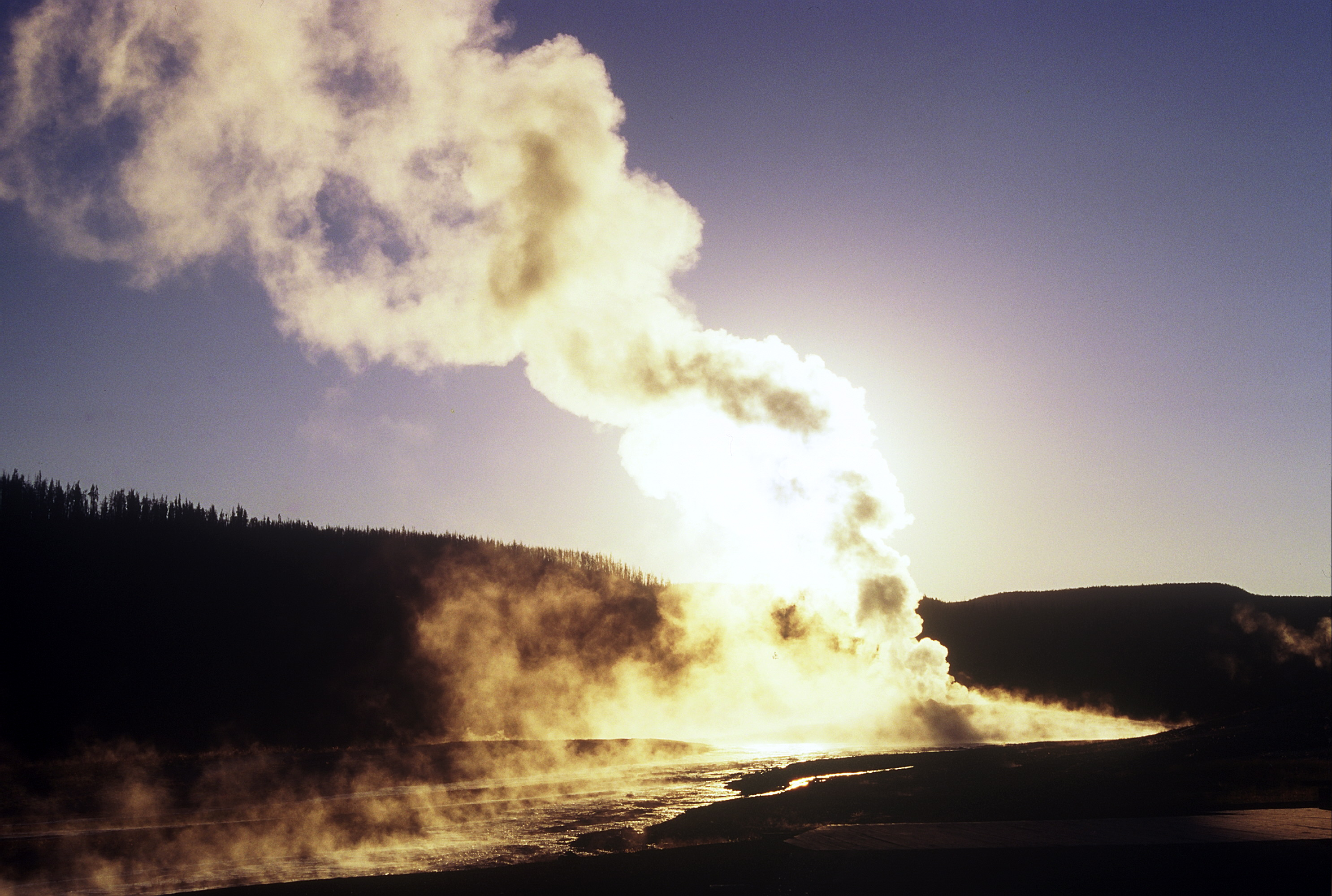 Old Faithful all'alba